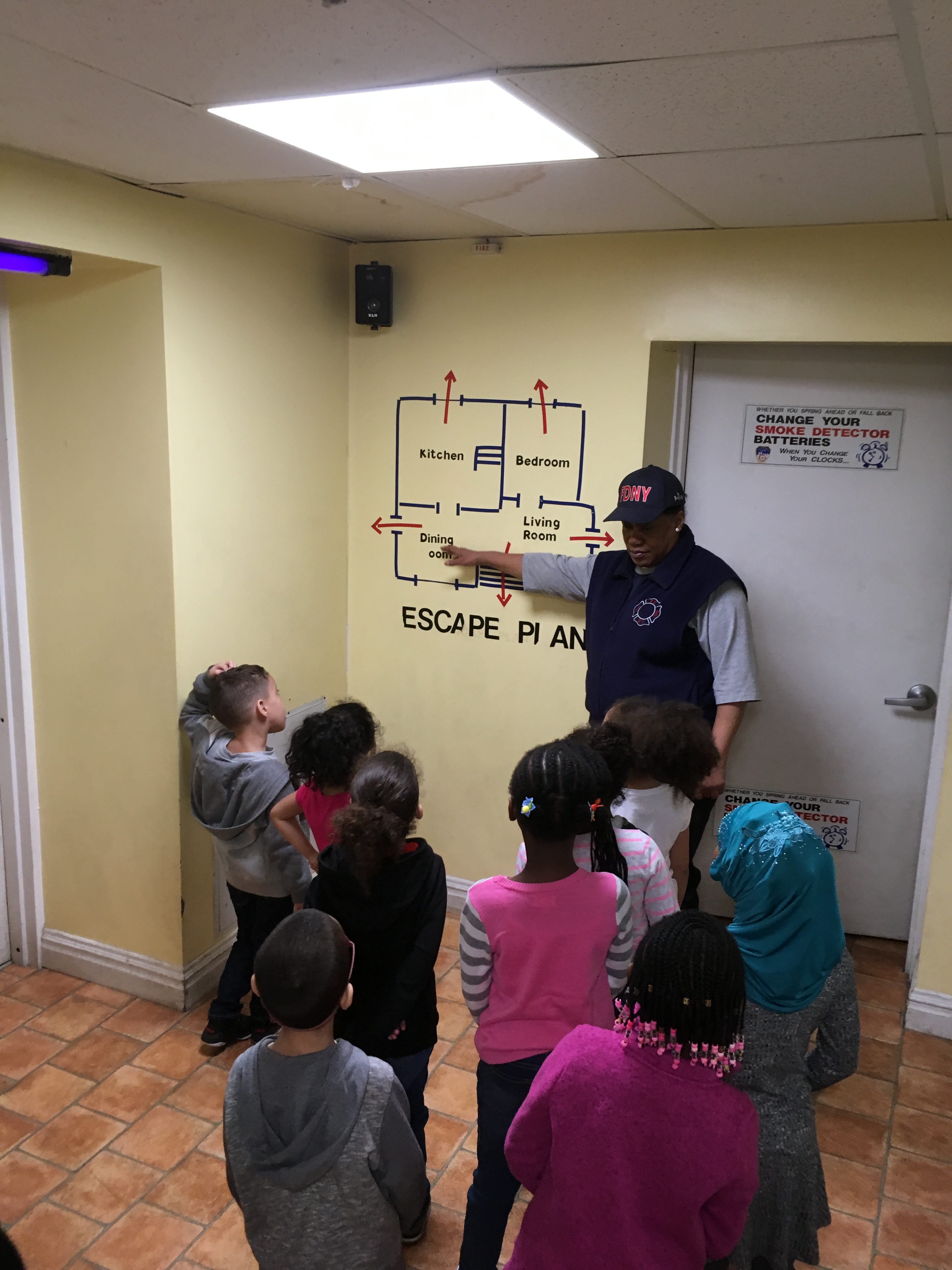 Children are shown how to escape from their home if it is on fire by an FDNY Firefighter/Fire Safety Instructor.